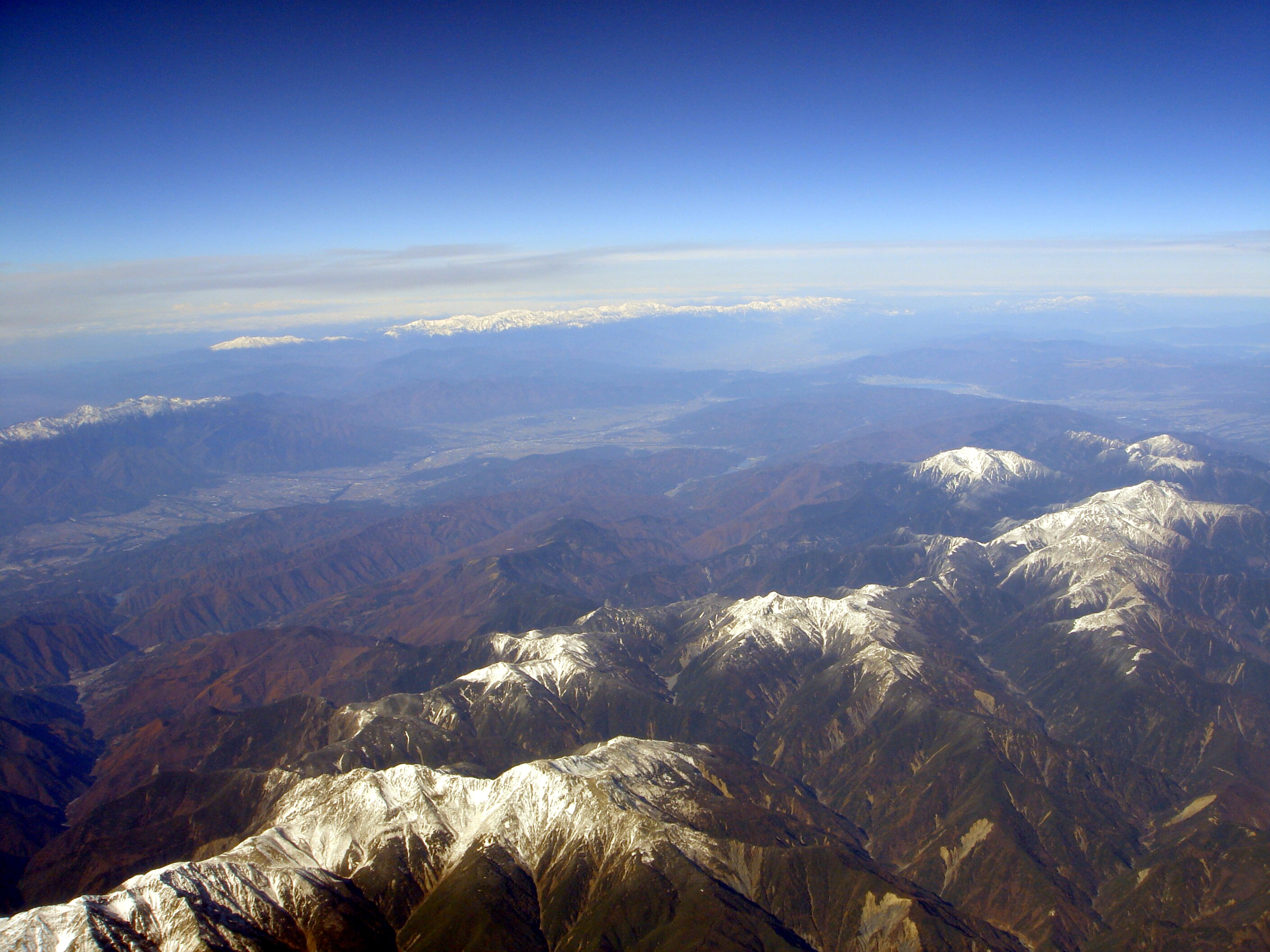 Akaishi Mountains and Ina Basin in Honshu, Japan. Looking northwest. Hida Mounrains in the backgrond. Kiso Mountains at left end.